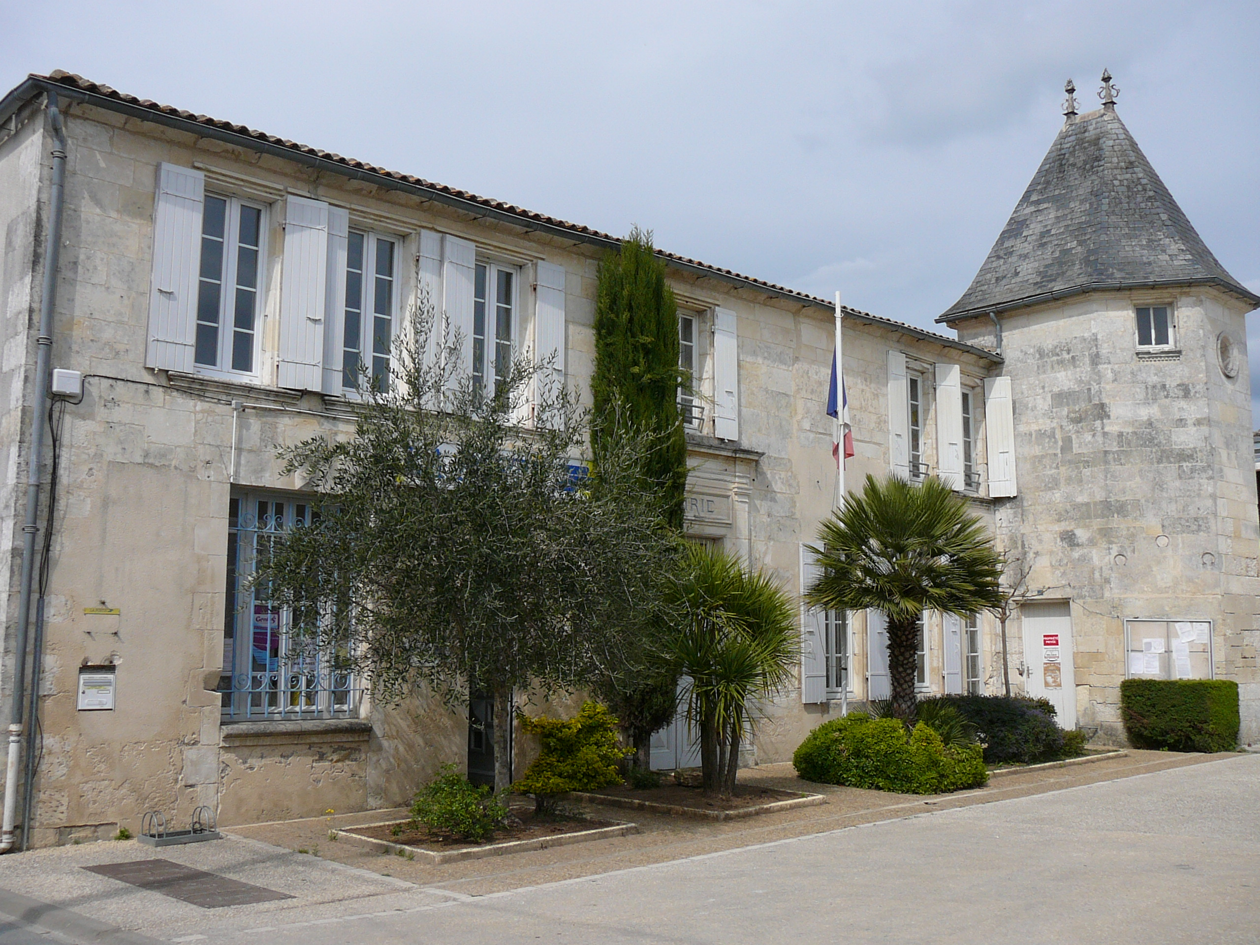 Post office (left part) and Town hall (right part) in Nieulle-sur-Seudre. March 2009. Charente-Maritime (17), Poitou-Charentes, France, Europe.